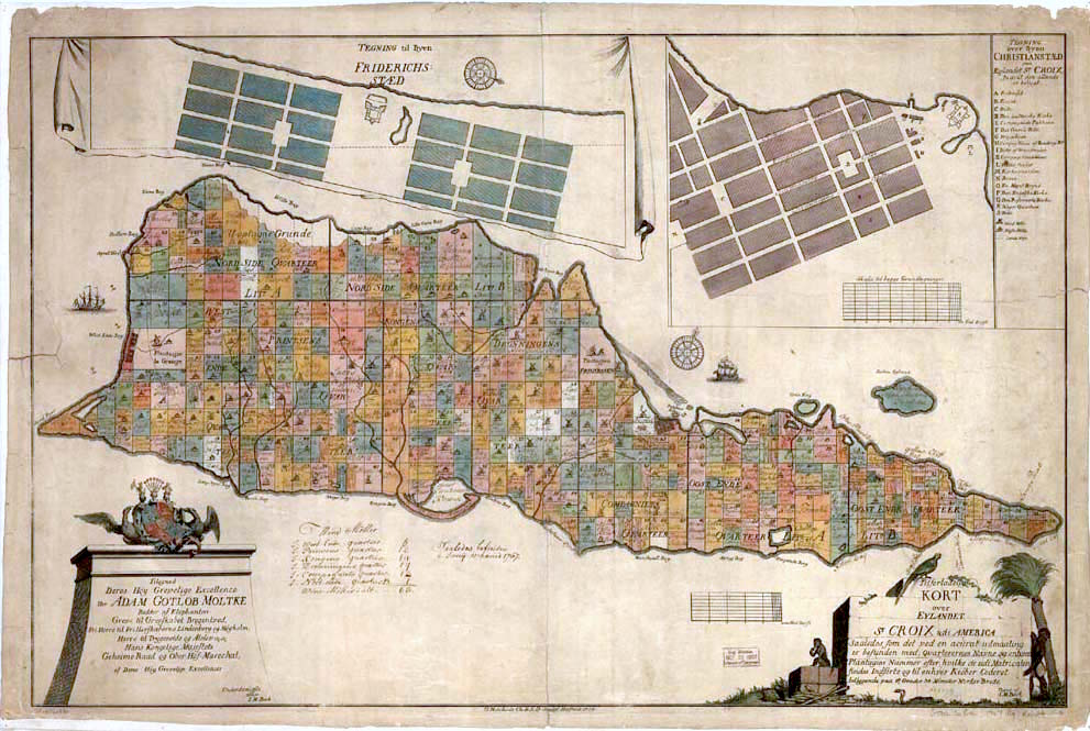 A 1754 map of the island of St Croix by Danish cartographer I.M. Beck.